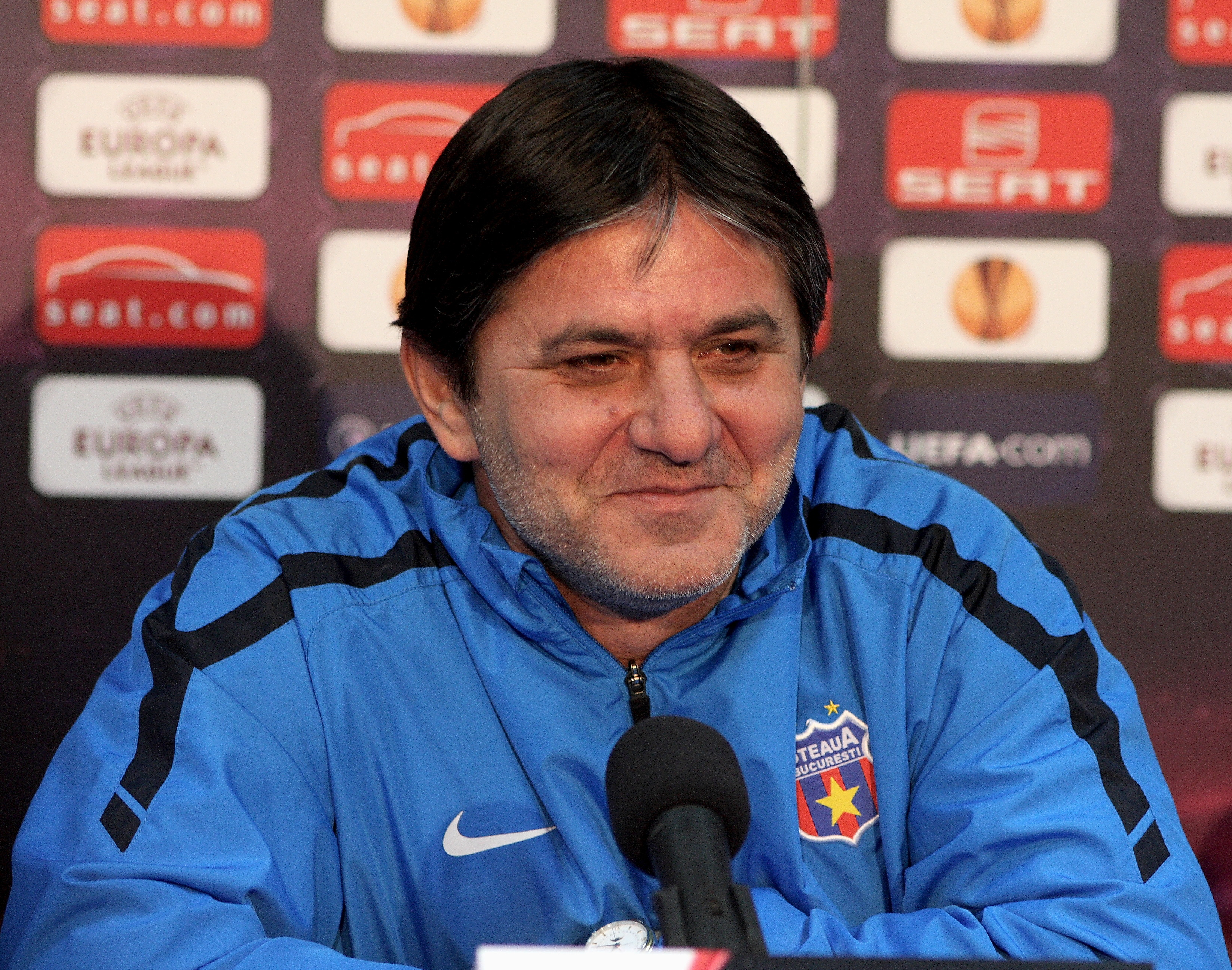 Marius Lăcătus at Steaua.